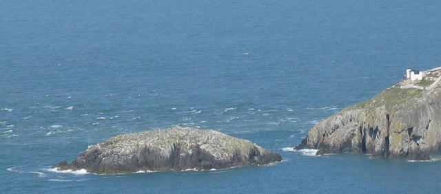 North Stack